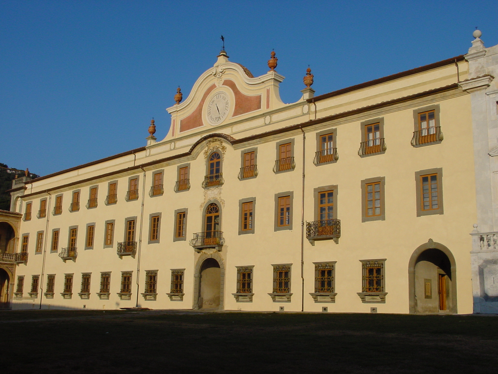 Certosa di Pisa